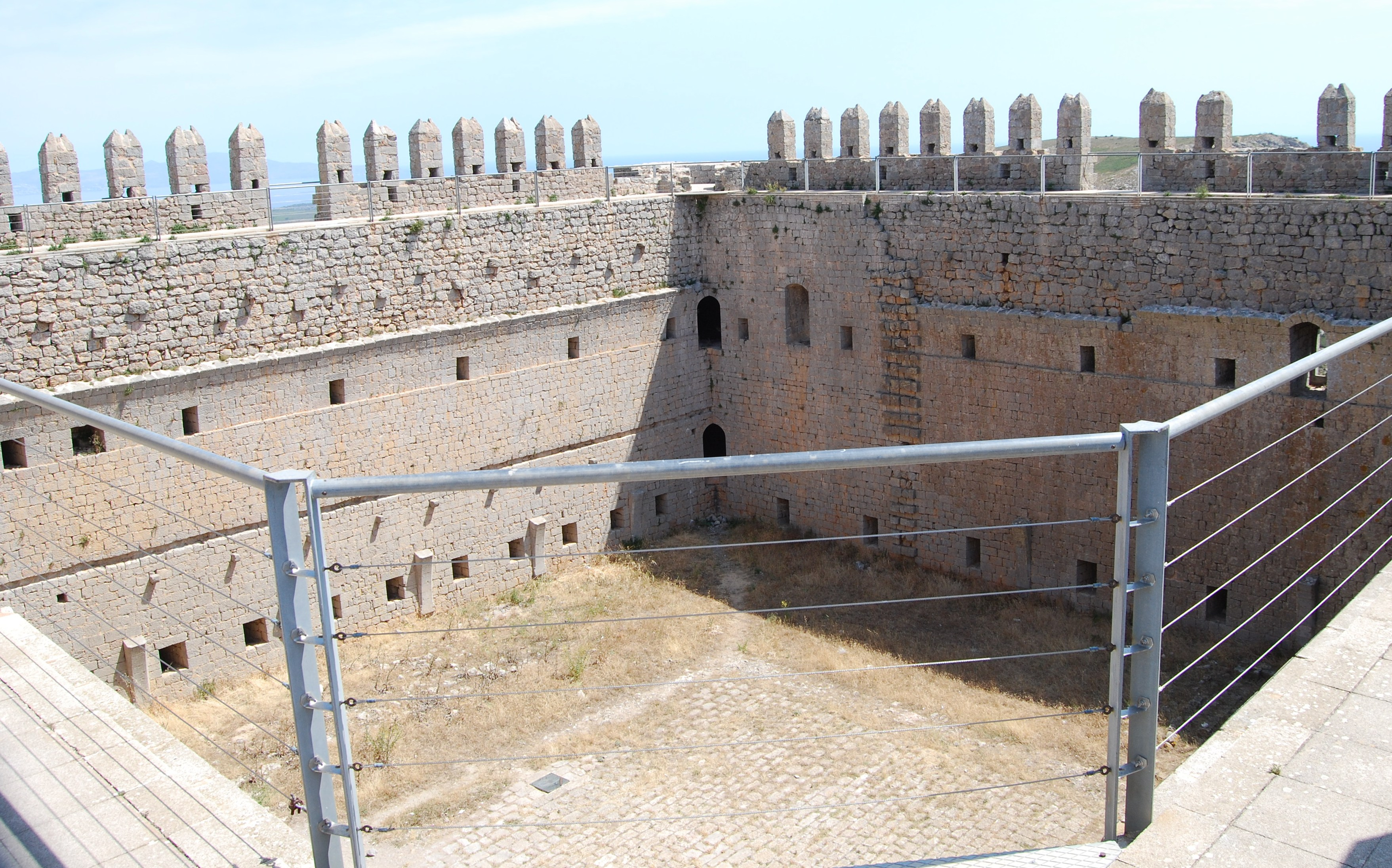 internal view, the castle was never finalized so it is only the clean walls